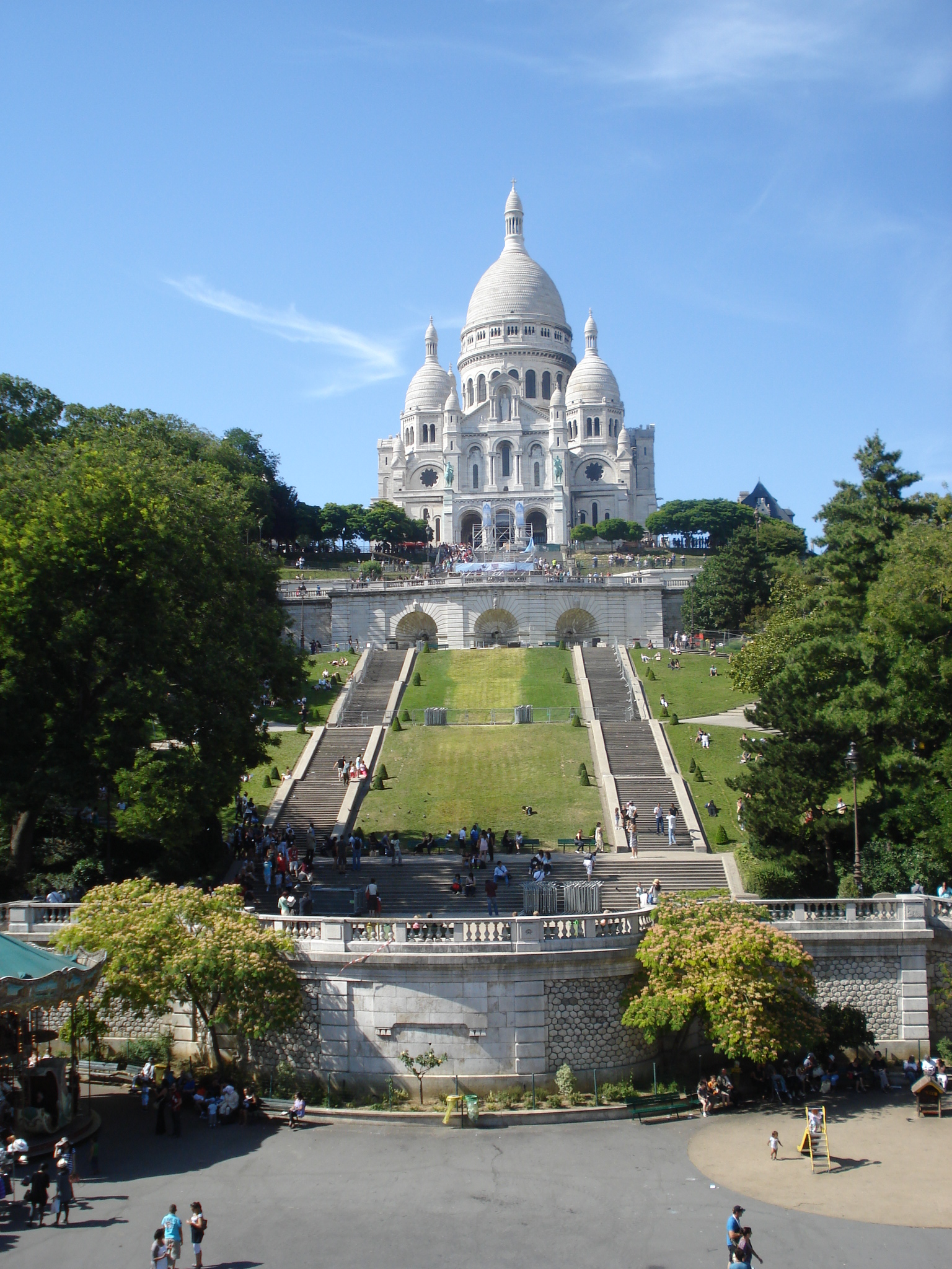 Basilique du Sacré-Cœur in Paris